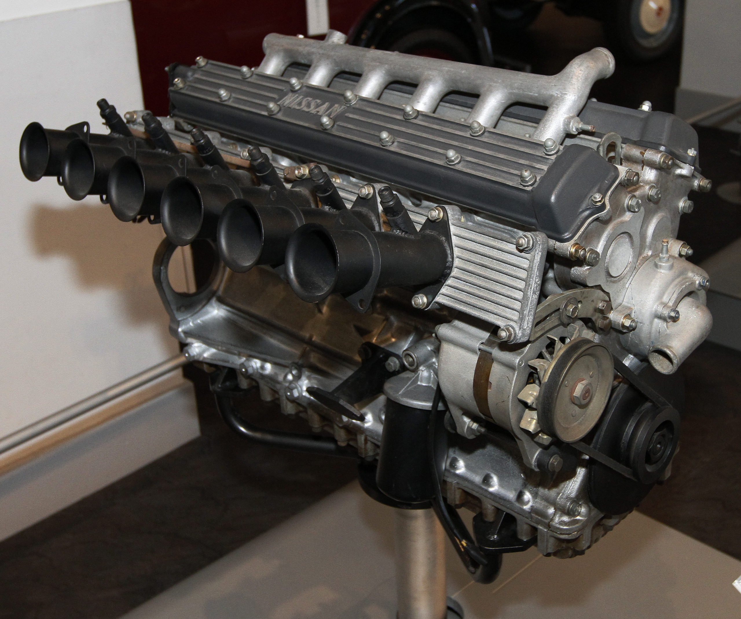 1965 Prince GR8 engine (for the Prince R380)